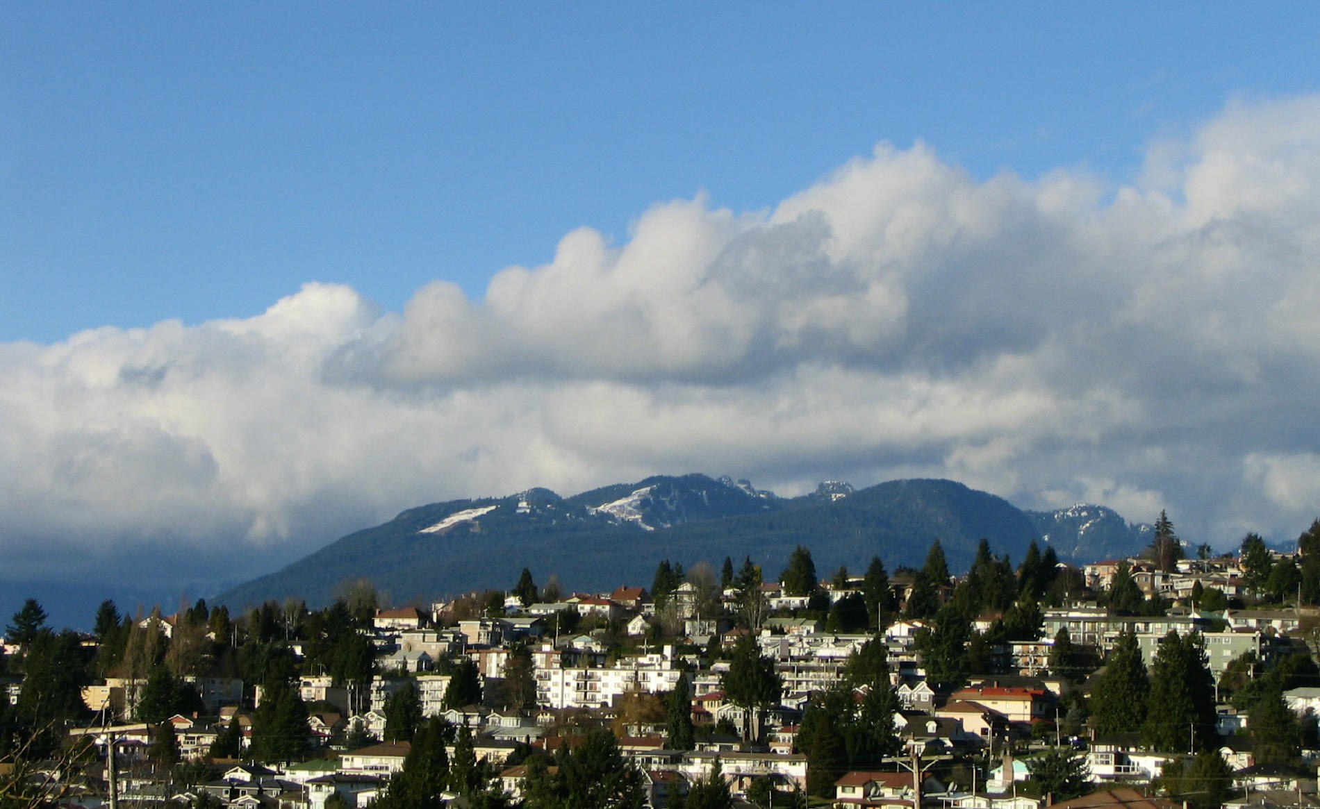 This image was created by me, Flying Penguin of Pacific Spirit Photography ( of Burnaby, BC, Canada.